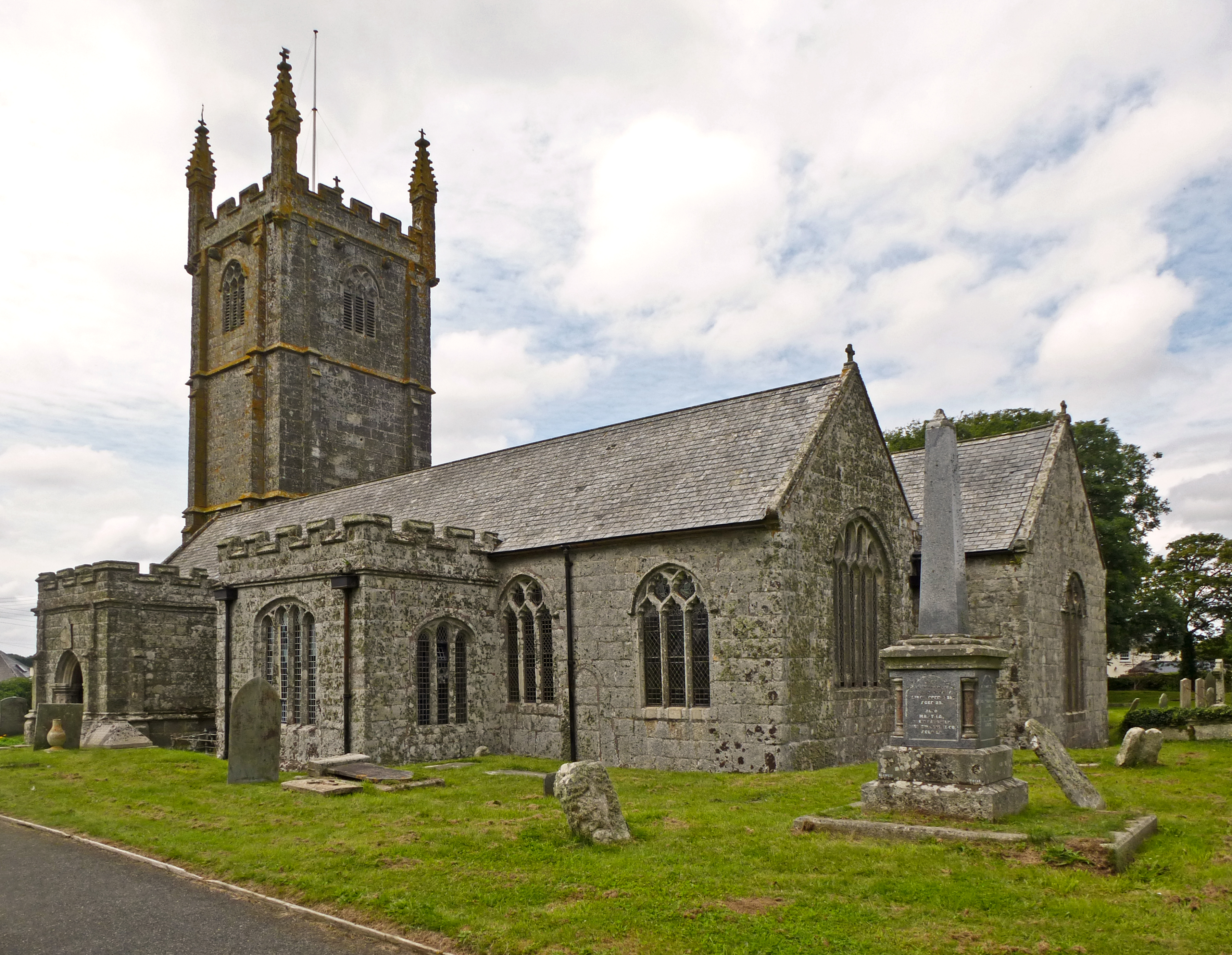 Breage Parish Church (St Breaca), Breage, Cornwall. Taken by Flickr user:Tim Green aka atouch on Tuesday the 13th of August 2013.